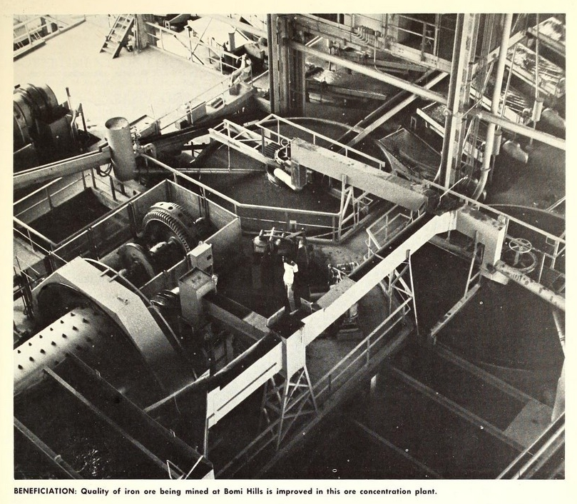 Book illustration from: A market for U.S. products in Liberia